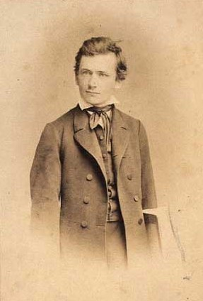 Janus Andreas Bartholin la Cour (1837-1909), Danish landscape painter